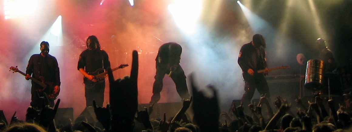 Best viewed large. - Slipknot performing at Bex Rock in 2005